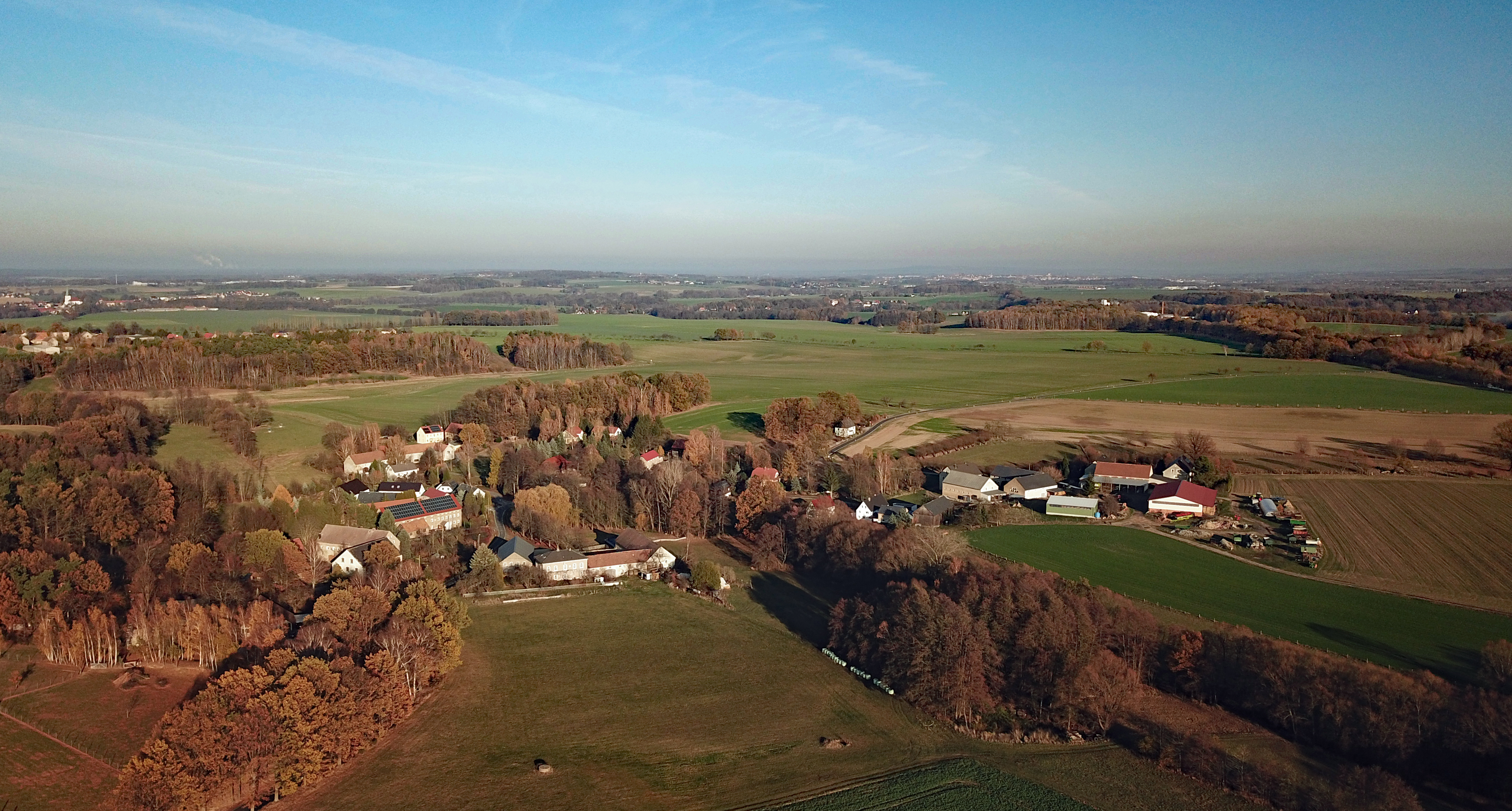 Zockau (Doberschau-Gaußig, Saxony, Germany) Hornjoserbsce: Powětrowy wobraz Cokowa pola Huski